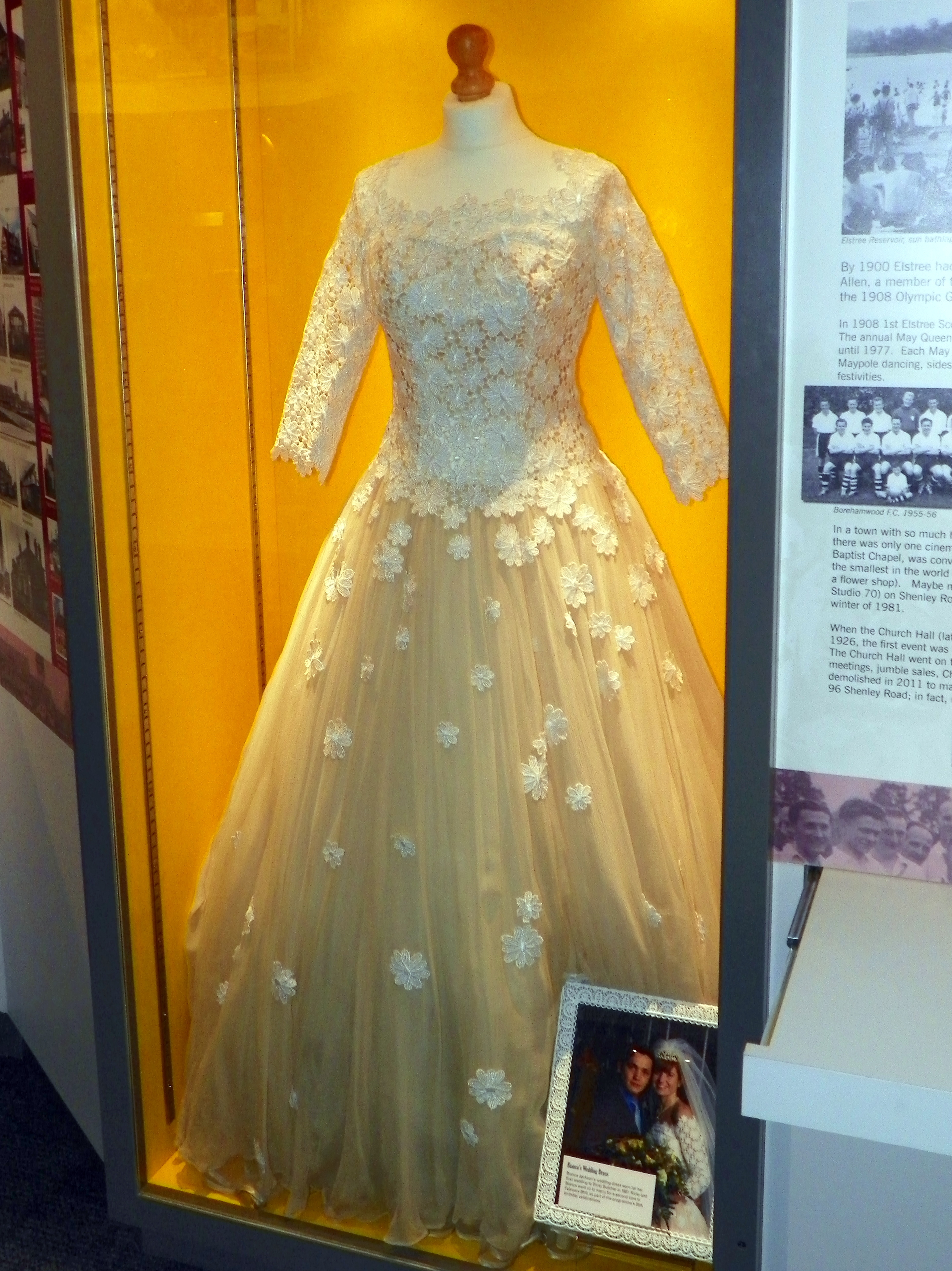 The wedding dress worn by Patsy Palmer in role as Bianca Jackson, during her first wedding to Ricky Butcher, played by Sid Owen, on display at the Elstree and Borehamwood Museum in Hertfordshire, as part of their "EastEnders at 30: In Our Manor" exhibition.